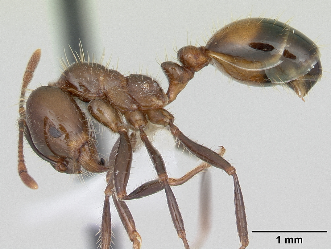 Profile view of ant Solenopsis richteri specimen casent0103101.